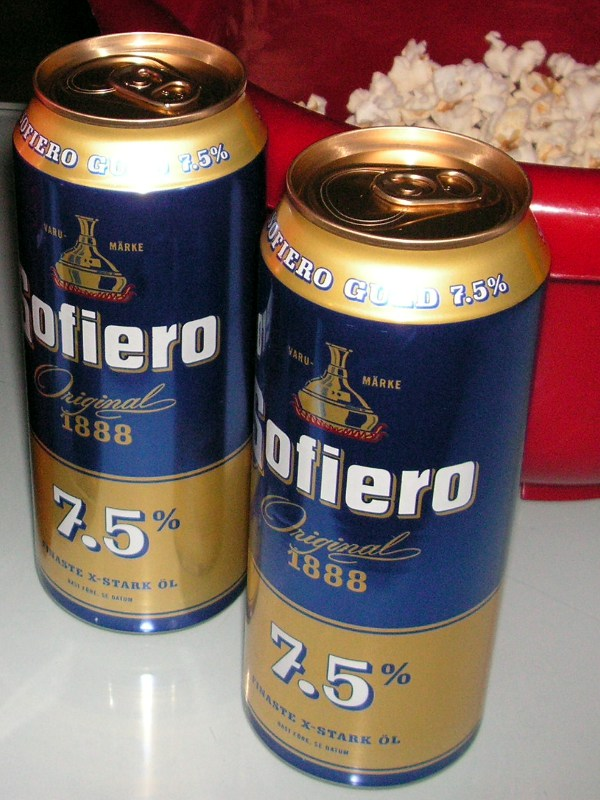 Swedish beer "Sofiero Guld", 7.0%